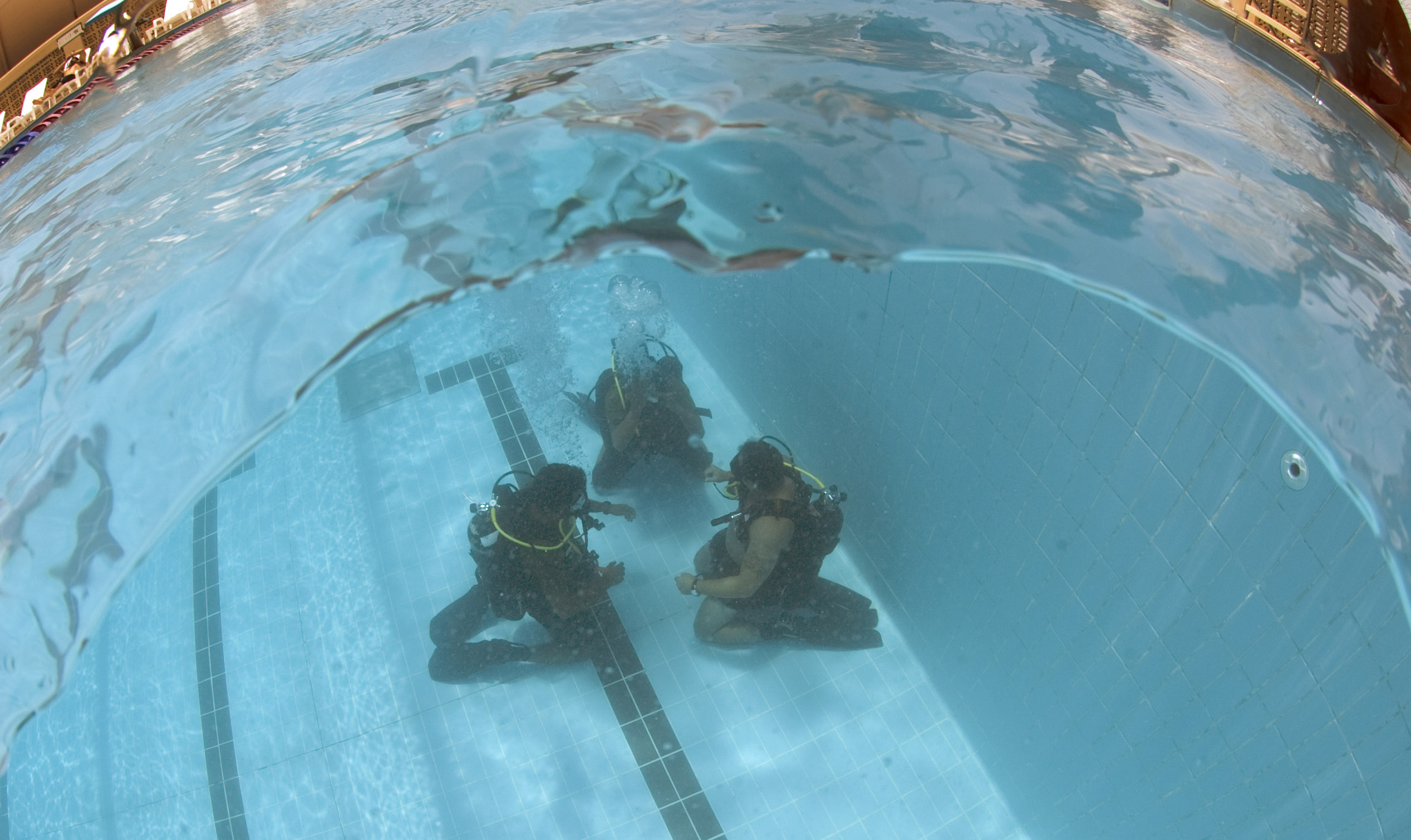 NAVAL SUPPORT ACTIVITY, Bahrain (June 13, 2011) Chief Navy Diver Aaron Knight, right, assigned to Commander, Task Group (CTG) 56.1, and Pakistani divers conduct a familiarization dive during a weeklong diving and salvage exchange. The divers conducted scuba operations, anti-terrorism force-protection training dives, underwater search techniques and diving fundamentals during the exchange. CTG 56.1 provides maritime security operations and theater security cooperation efforts in the U.S. 5th Fleet area of responsibility. (U.S. Navy photo by Mass Communication Specialist 3rd Class Martin L. Carey/Released)